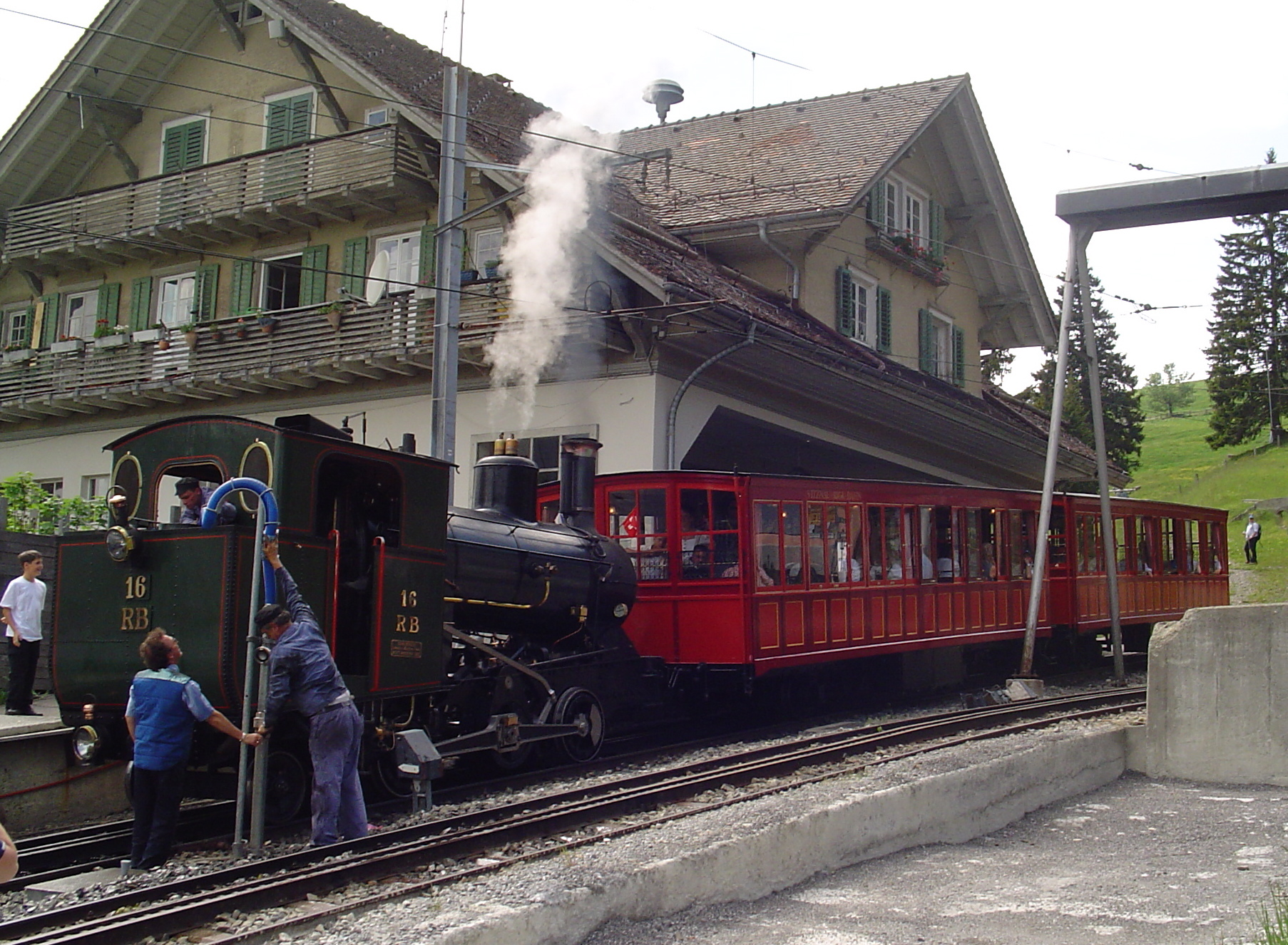 Historic steam train on the Rigi